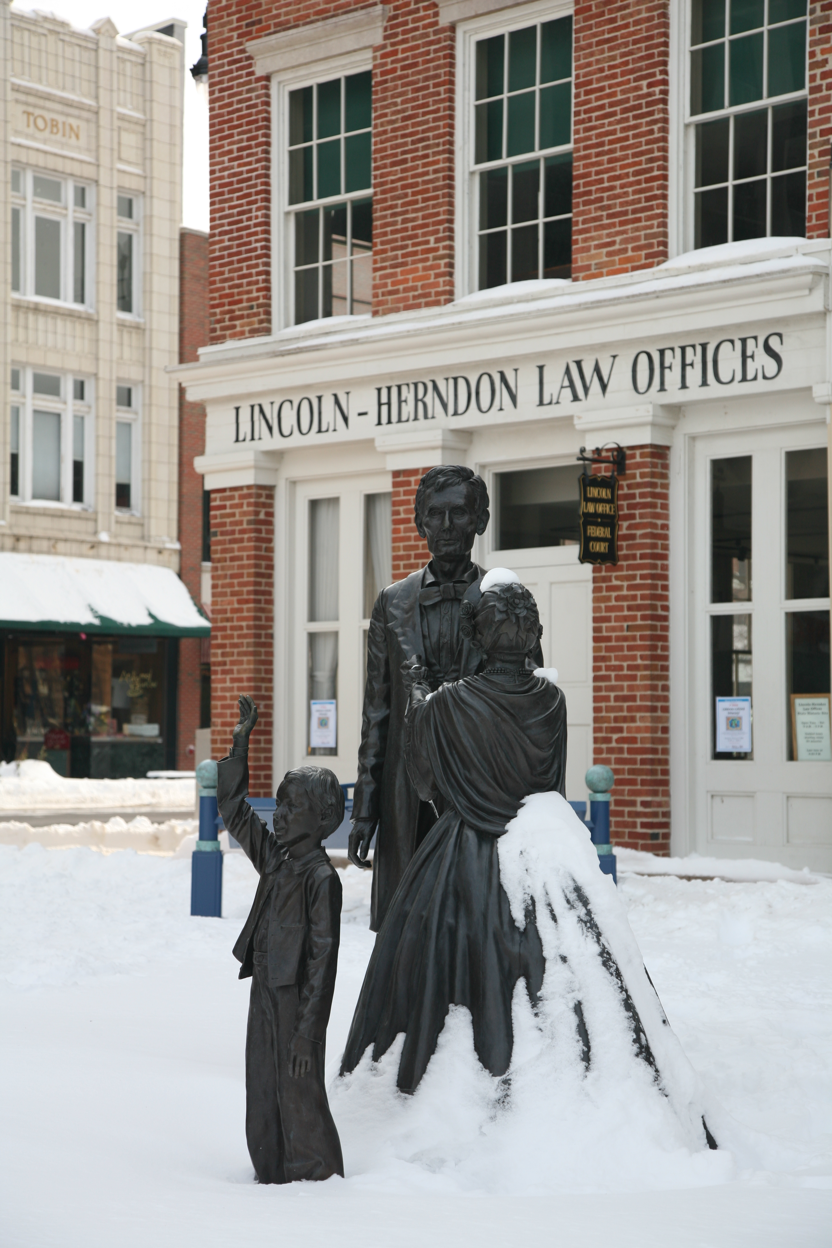 Lincoln Herndon law offices in Springfield, Illinois